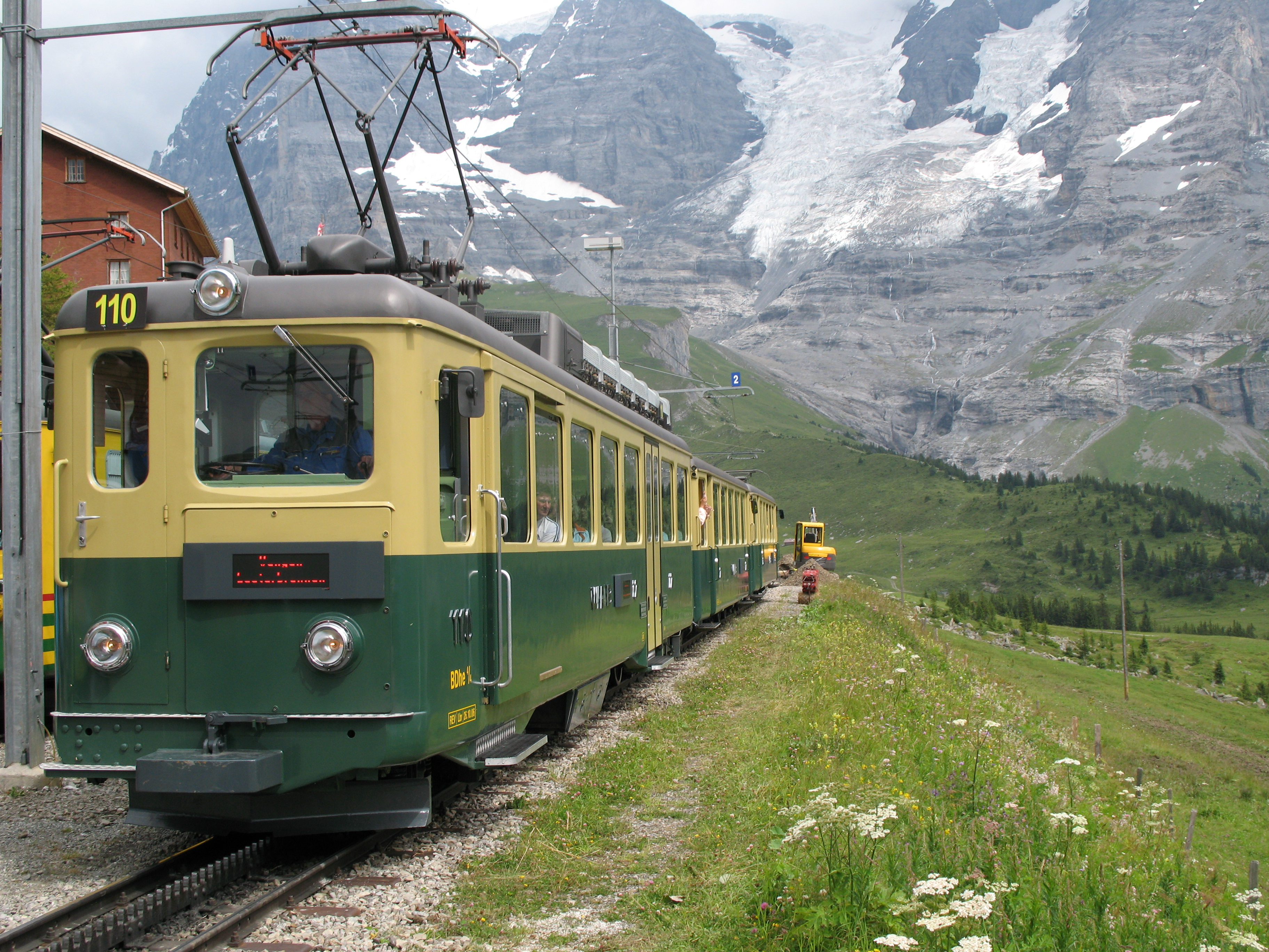 Wengernalpbahn Class BDhe4/4 (manufactured by SLM/BBC), Wengernalp, Switzerland